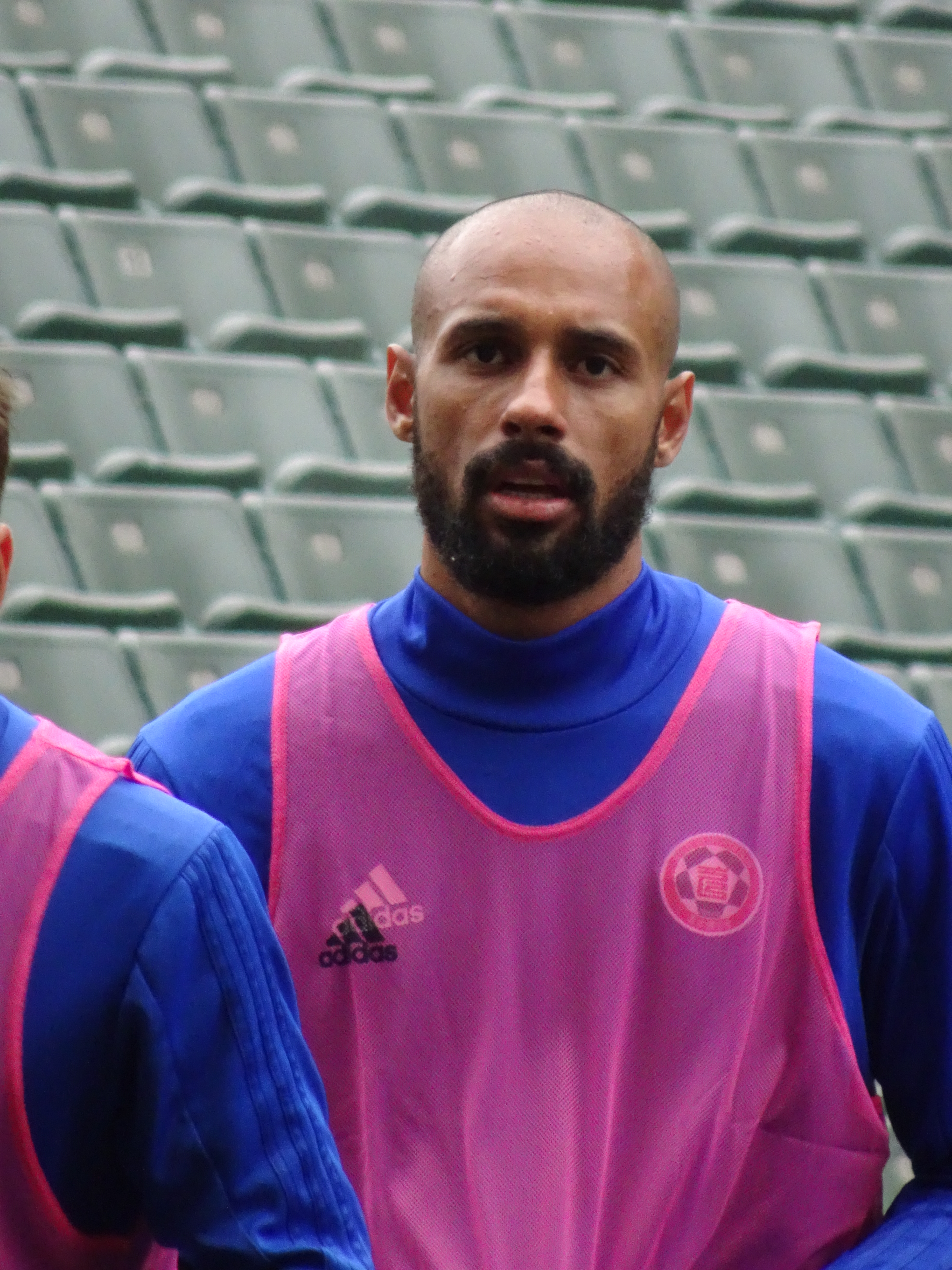 Bruno César Correa (27 Jan 2018, HK Senior Shield Final, Eastern vs Yuen Long, Hong Kong Stadium)